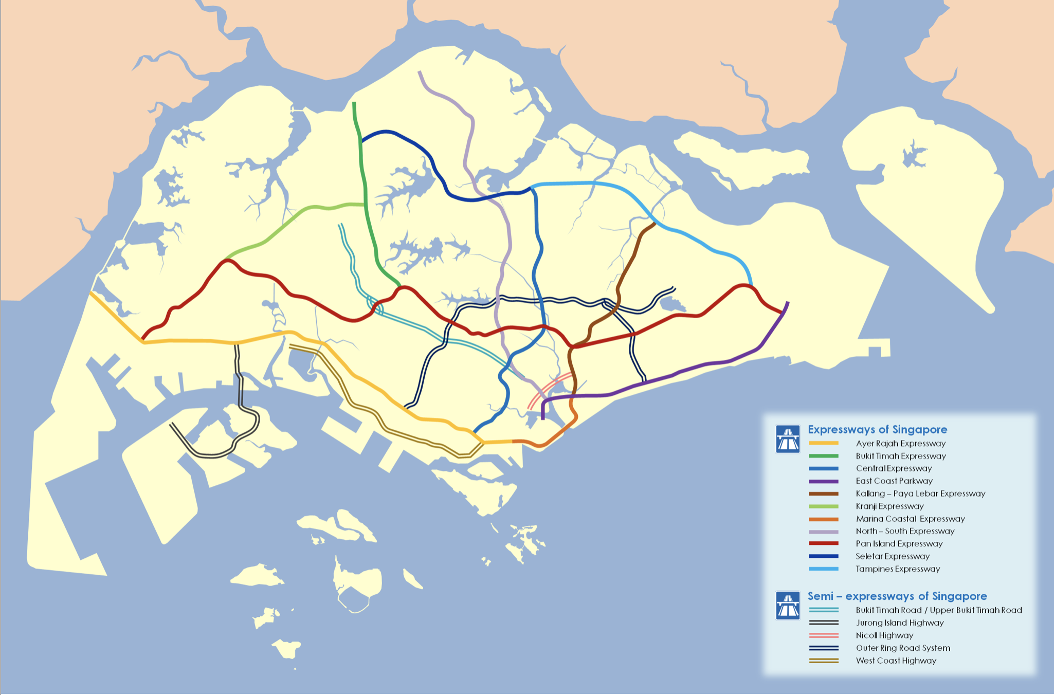 Expressways and Semi-expressways of Singapore. It includes all 11 existing and planned expressways and 5 semi-expressways. Information correct as of January 2012. Map not drawn to scale.